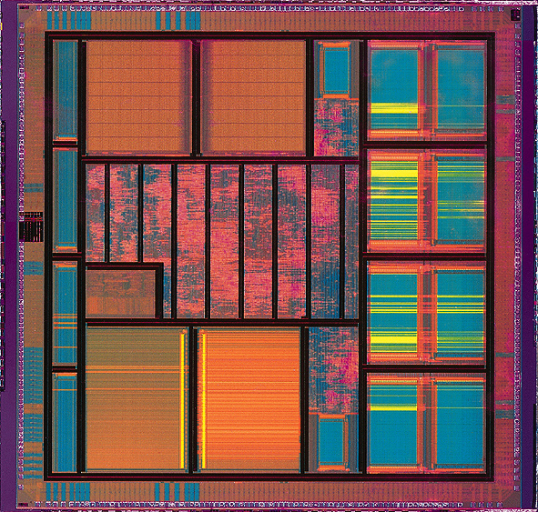 Atmel Diopsis 740 die shot